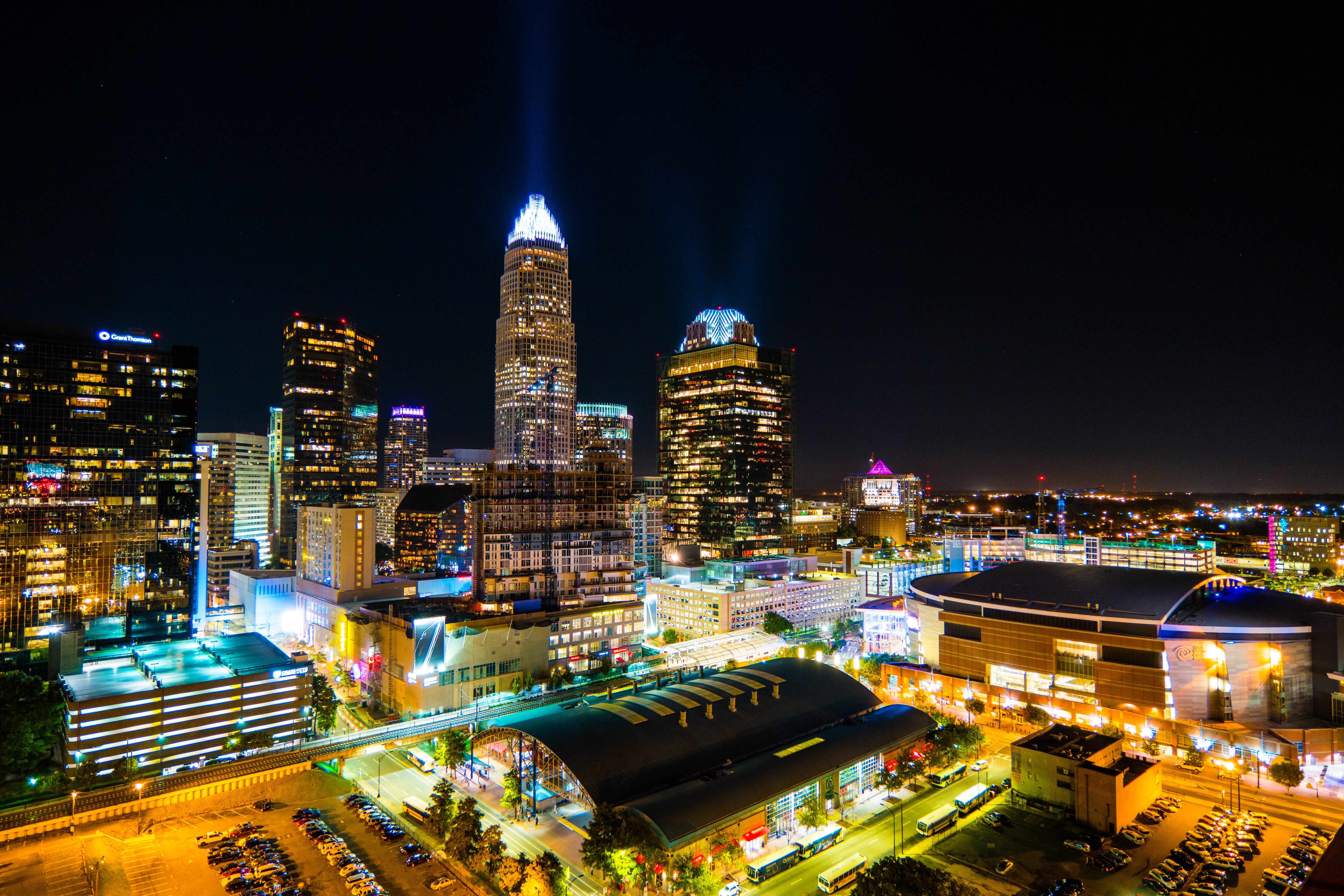 Skyline of Charlotte, North Carolina in 2016.